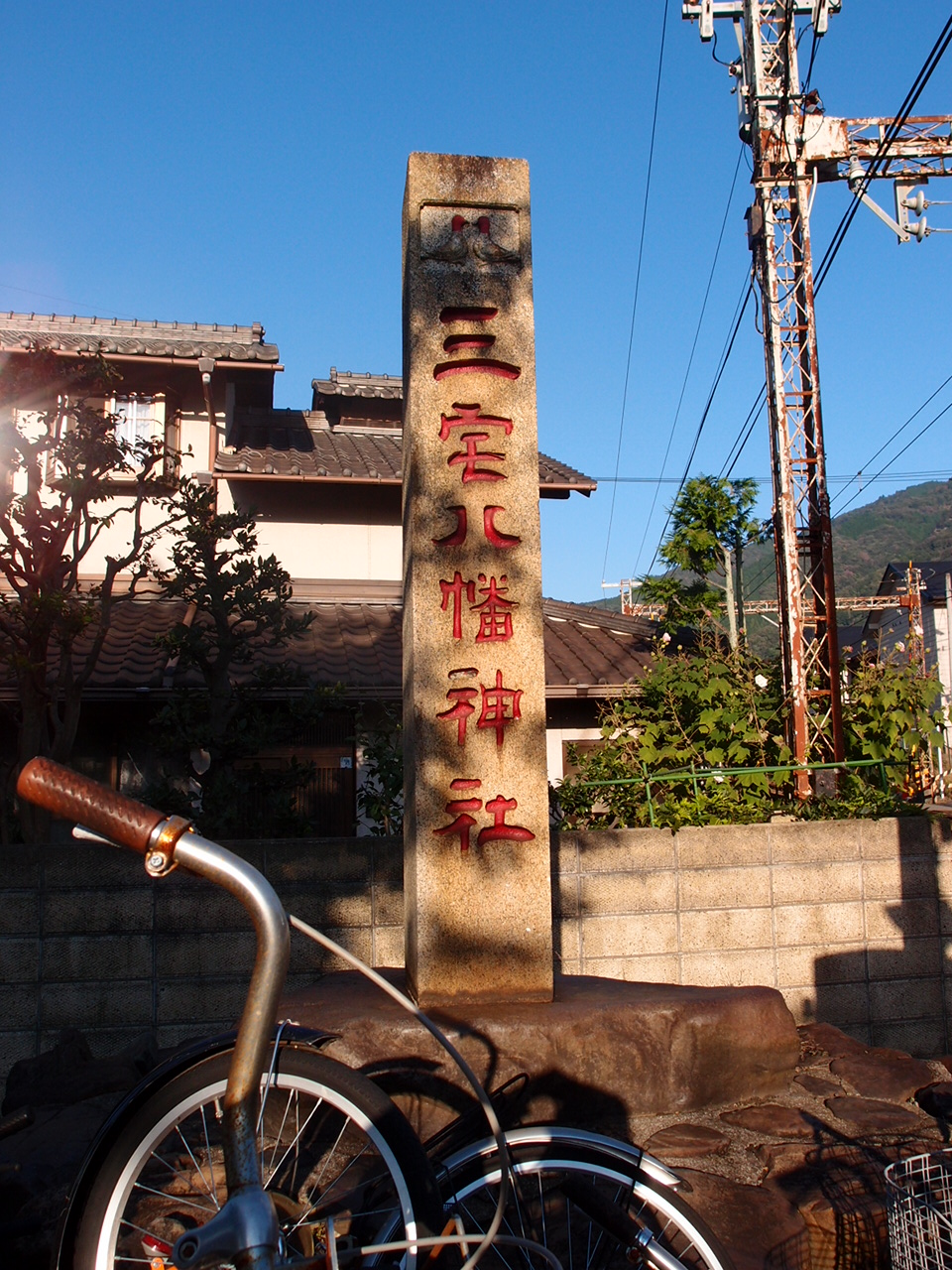 Kyoto, Japan.